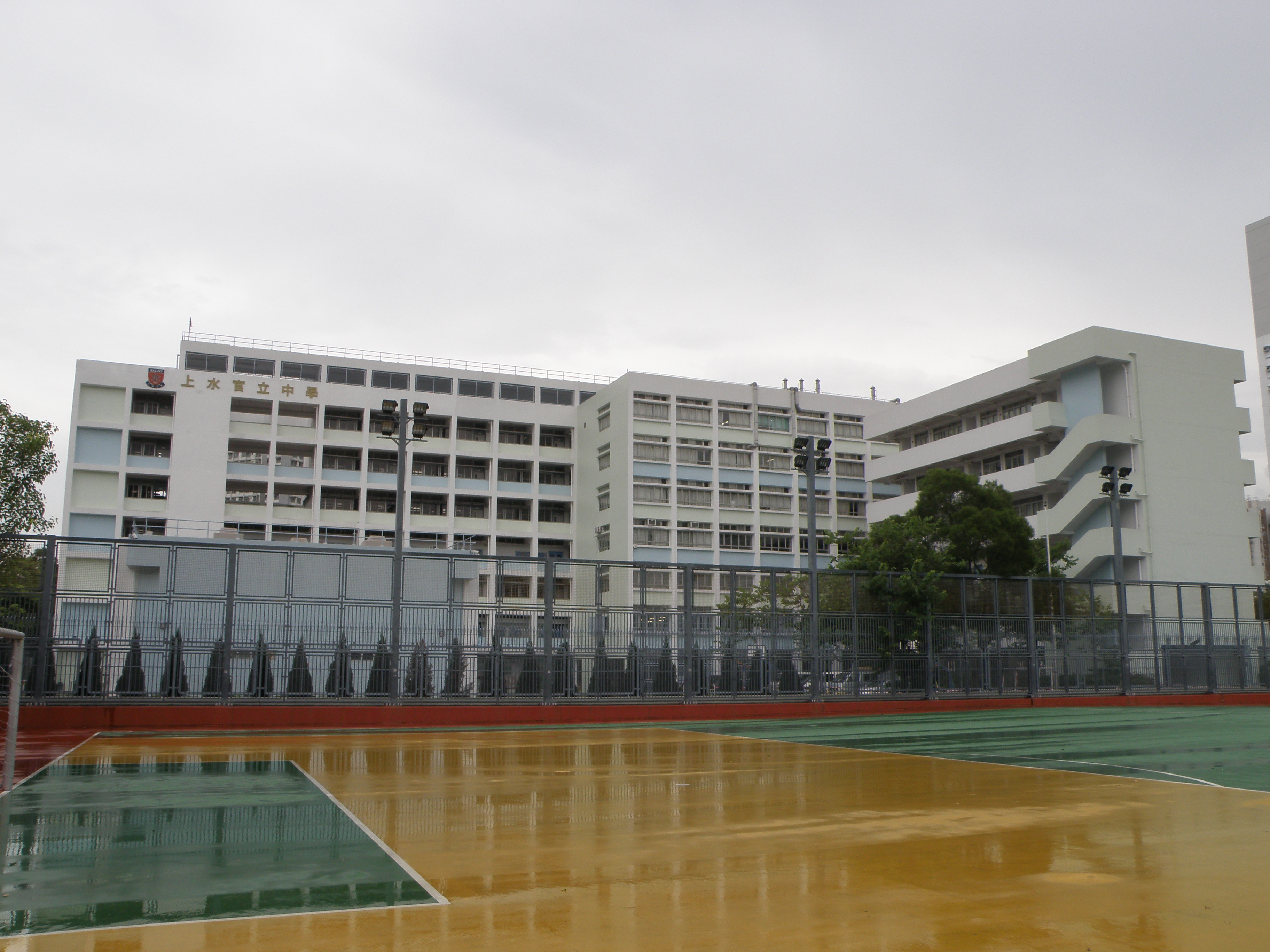 Sheung Shui Government Secondary School in Sheung Shui, Hong Kong.